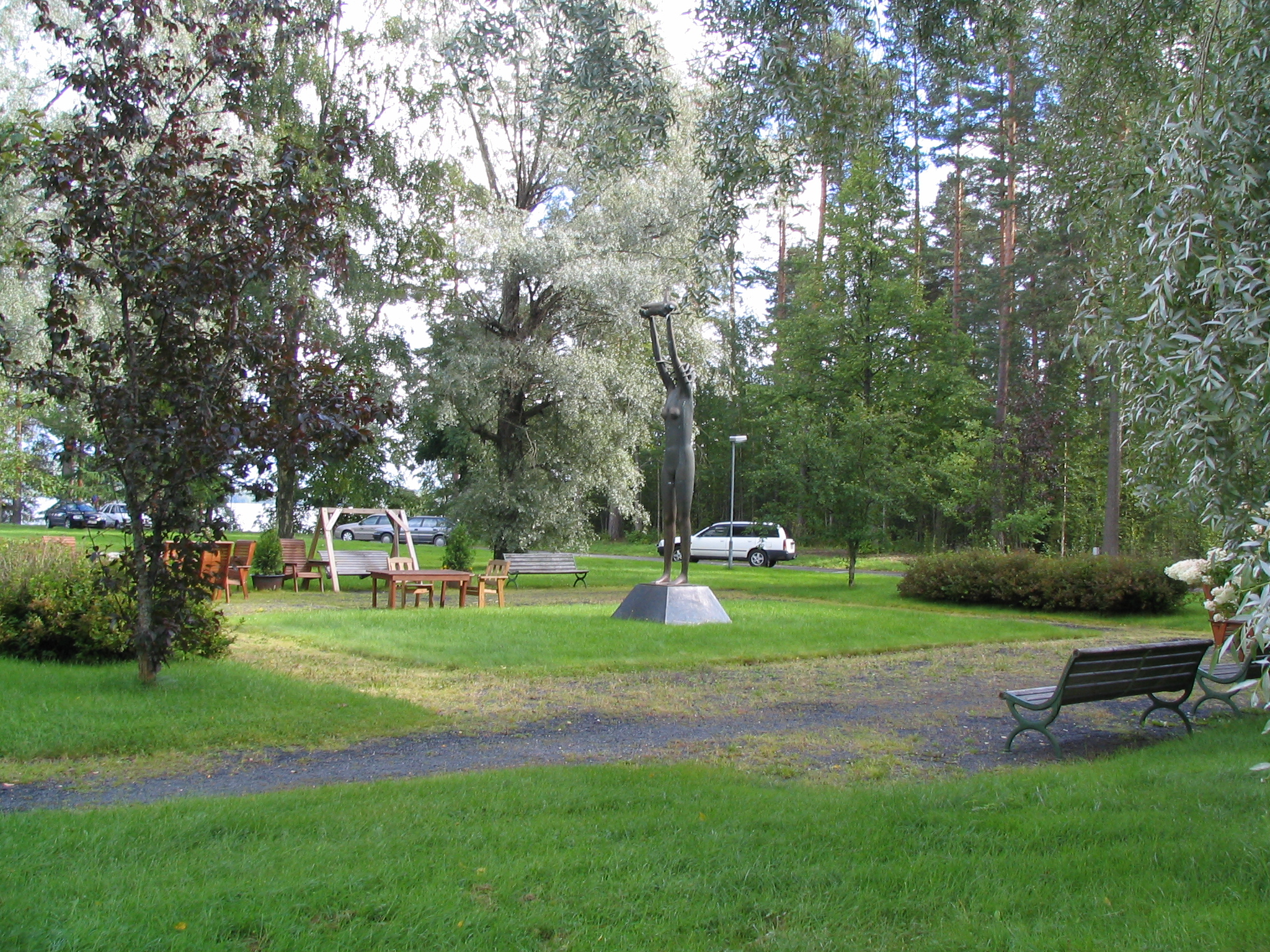 Kinkomaa Hospital front yard and in center is the bronze statue Marjatta by Kauko Räsänen (1991) Location: Muurame, Finland.